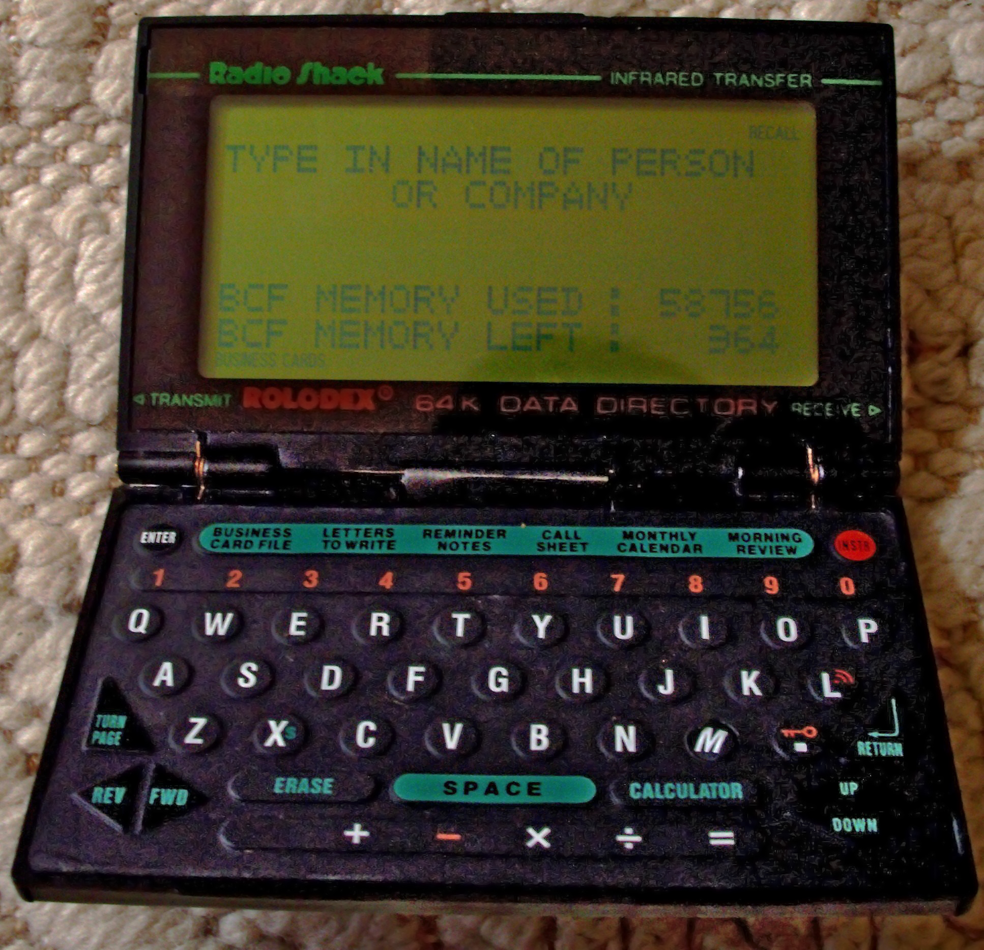 Radio Shack EC-339 Rolodex: 64K Pocket Data Directory